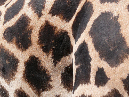 Fur of giraffe (Giraffa camelopardalis)